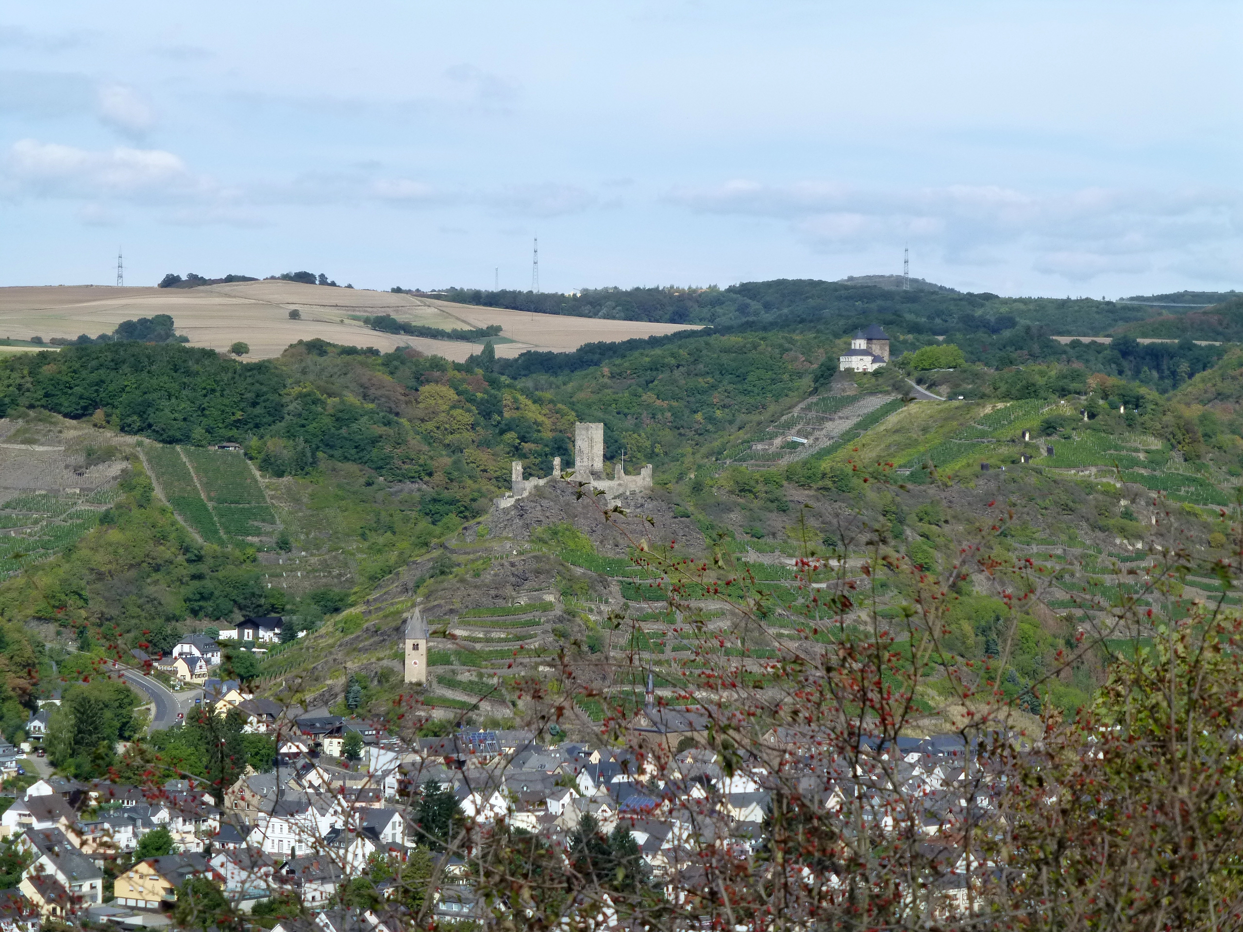 The village of KOBERN on the Moselle, and its 2 castles. Zoom from the Ratsplatz Glattlay.